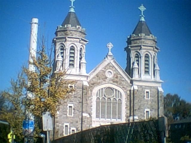 St. Michaels Church In Overlea, Maryland, USA.